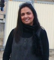 Vibha Bhatnagar, Film Producer and Entrepreneur